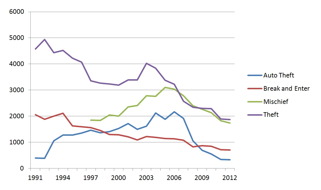 This image shows the rates per 100,000 residents for theft, auto-theft, break and enter, and mischief rates in Winnipeg from 1991 to 2012. Note: Arson not included because the rates are naturally a lot smaller then those 4 crimes, so you cannot really see the numbers for arson.